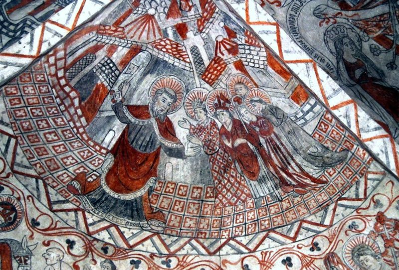 Frescoes by The Isefjord Master from apr. 1460-1480 in Tuse Kirke (church)